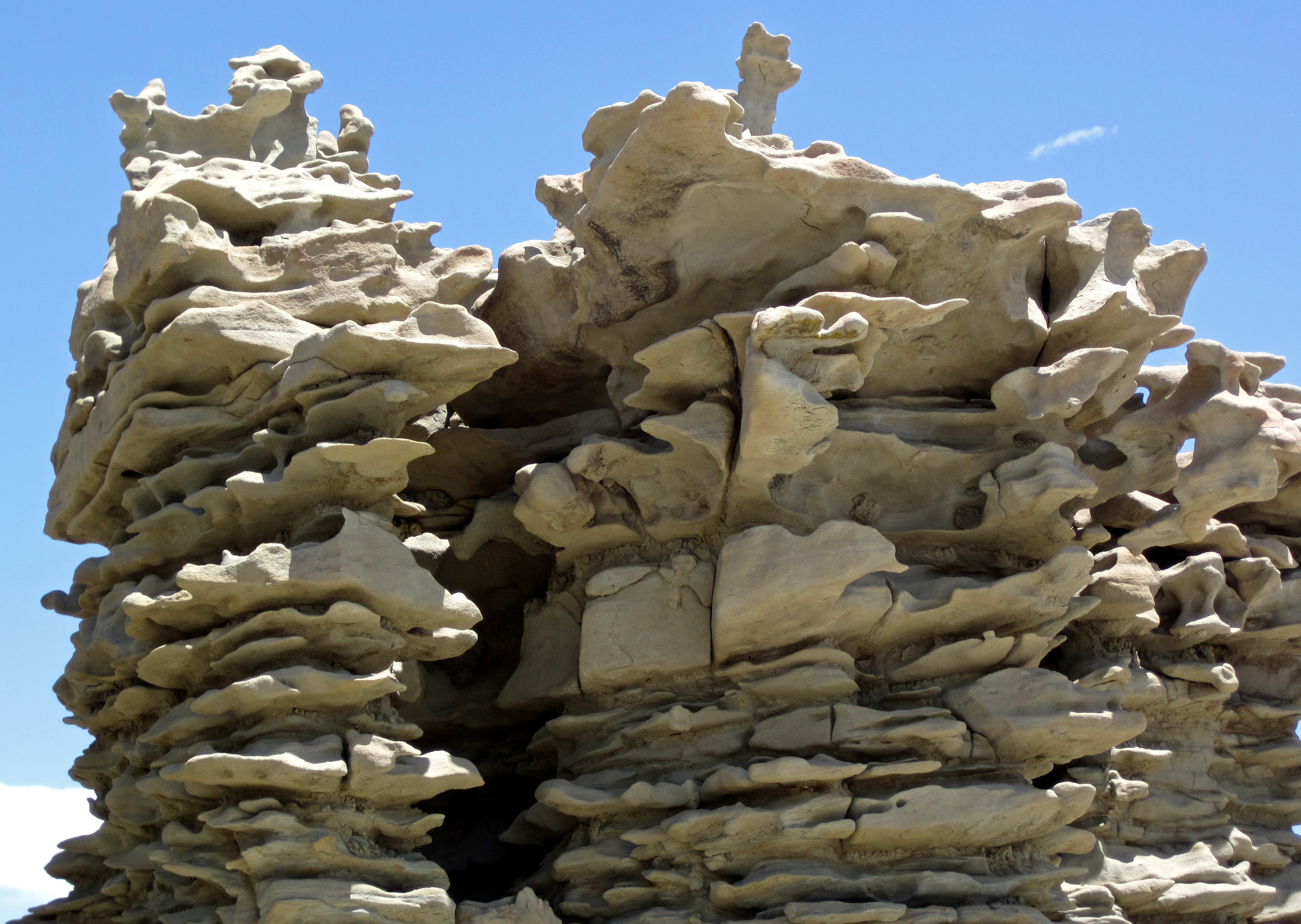 Differentially cemented & eroded sandstone in the Eocene of Fantasy Canyon, Utah, USA. Fantasy Canyon has the most spectacular examples of differential weathering and differential erosion I've ever seen. The rocks are quartzose sandstones that were deposited on the eastern shore of ancient Lake Uinta, which existed during the Eocene. Some wisps and ribbons of dark-colored, magnetite-rich sand are present in the sandstone. The variety of chaotic rockforms at Fantasy Canyon are quite diverse - these cannot be explained by ordinary weathering and erosion. Close examination shows that erosion has acted upon differentially cemented sandstone. The sandstone has not undergone complete lithification and diagenesis - groundwater lobes have preferentially cemented portions of the sandstone, especially immediately adjacent to joint planes. The poorly-cemented sandstone was easily eroded & the better-cemented sandstone remains. Stratigraphy: member C, Uinta Formation, Eocene Locality: Fantasy Canyon, between Red Wash & Coyote Wash, Chapita Wells Gas Field, west-northwest of the town of Bonanza & south-southeast of the town of Vernal & east of the town of Ouray, northeastern Utah, USA